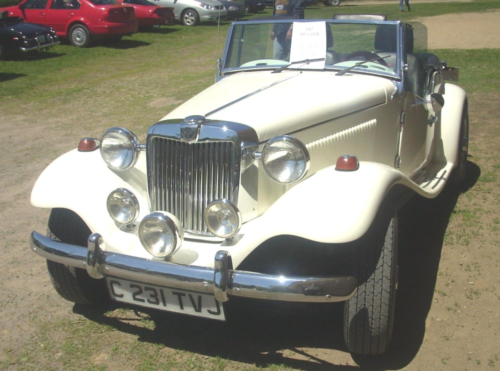 1987 MP Lafer photographed at the 2008 Hudson British Car Show.